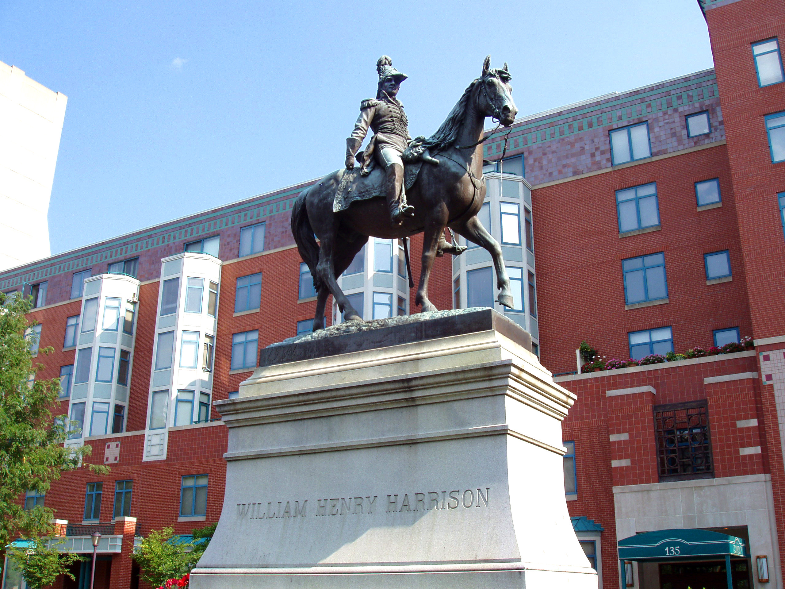 Bronze statue of William Henry Harrison (1773–1841), 9th President of United States (1841), as a uniformed General astride a horse. Modeled in early 1890s by Louis Rebisso (1837–99), it was erected in 1895 at the Vine St. entrance to the Piatt Park.[1] On the opposite side is the inscription, "First Ohio President".